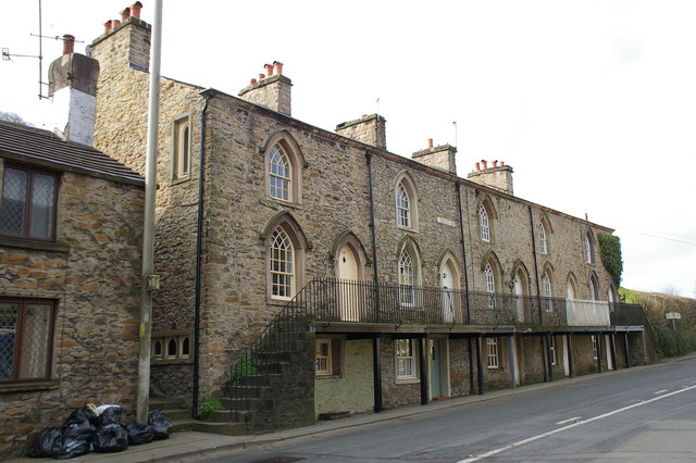 Terrace Row Unusual access?